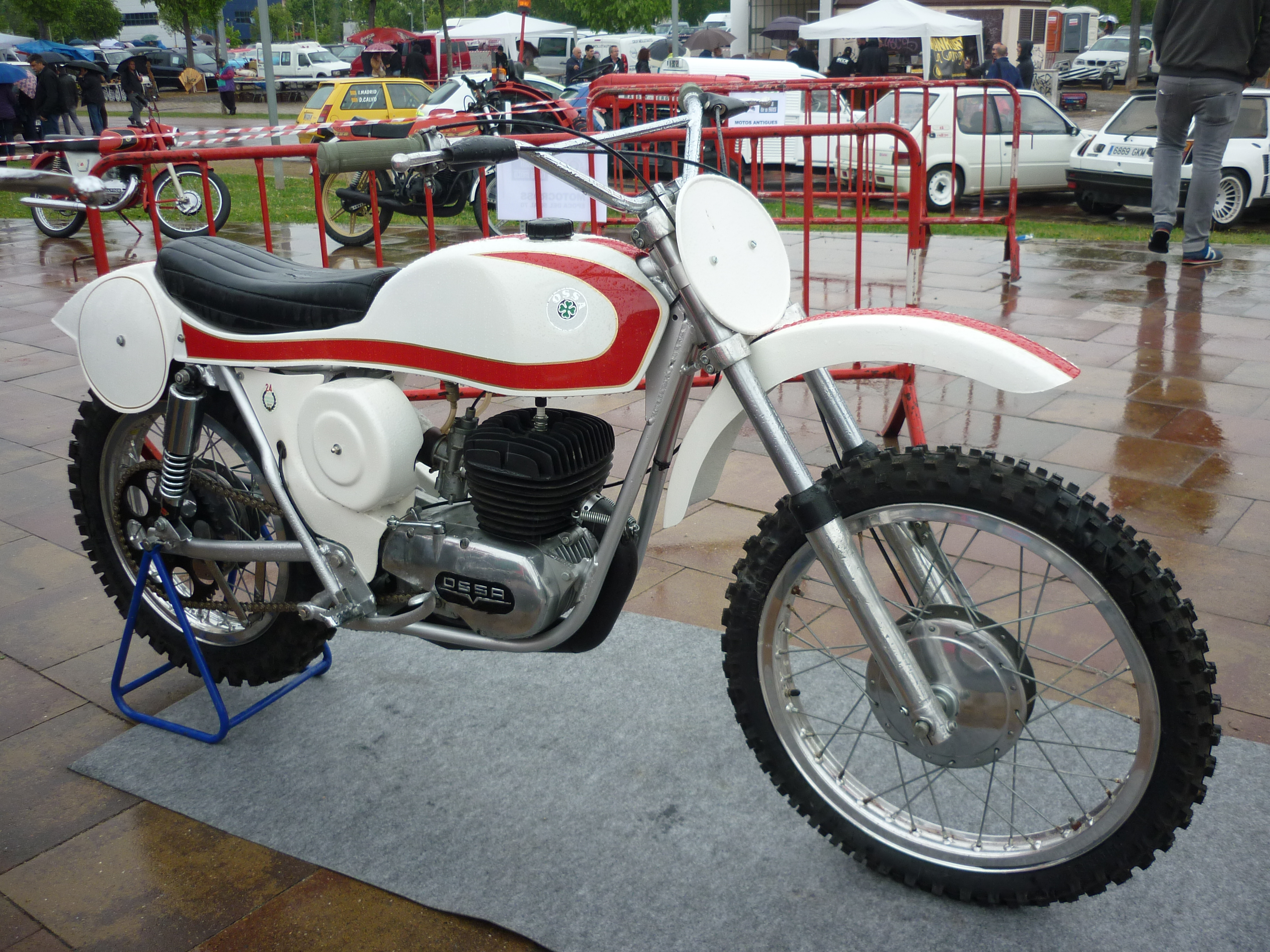 Ossa Stiletto 250 AS, 1971